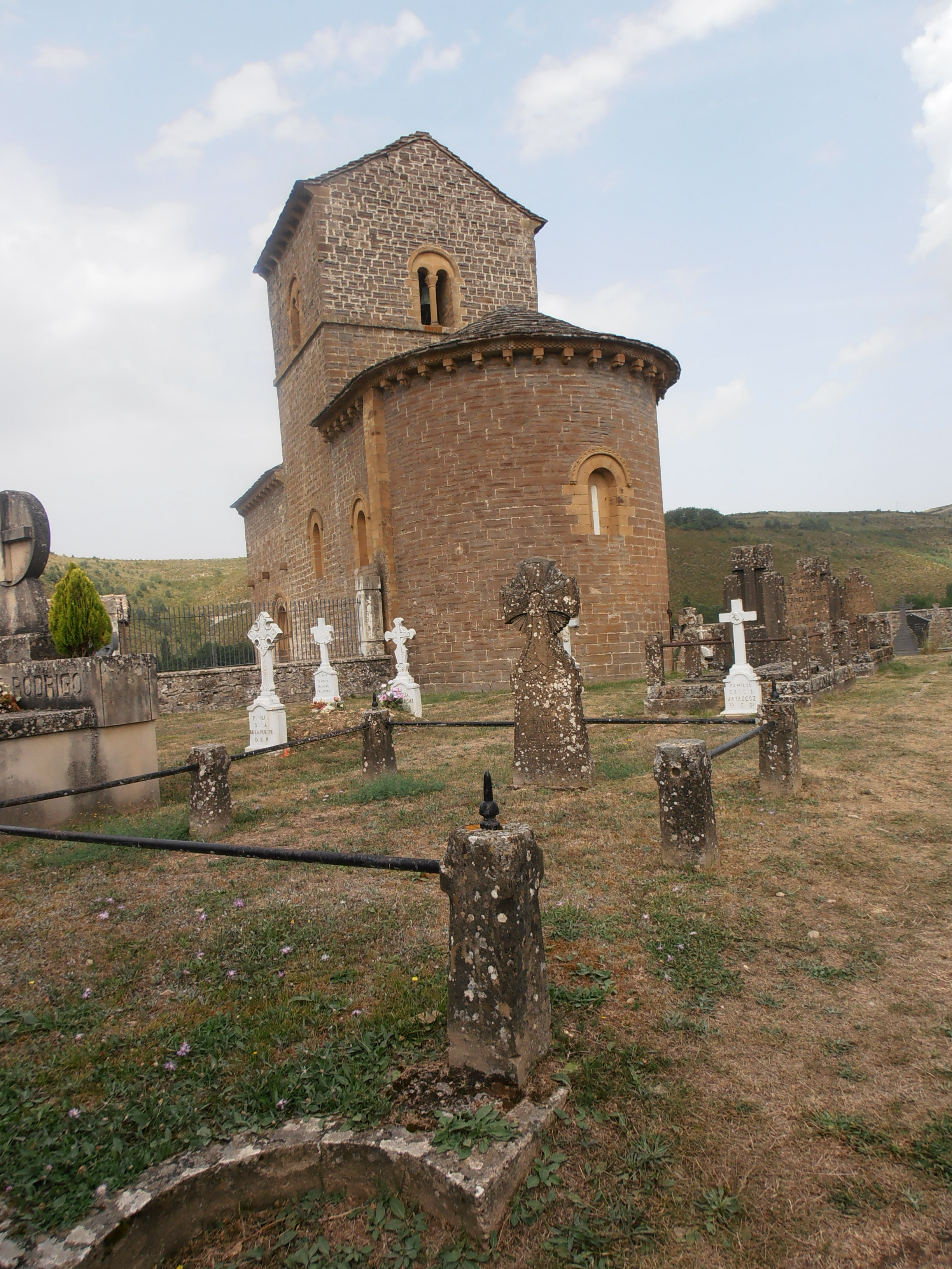 St. Maria del Campo Church in Navascués (Navarra, Spain)